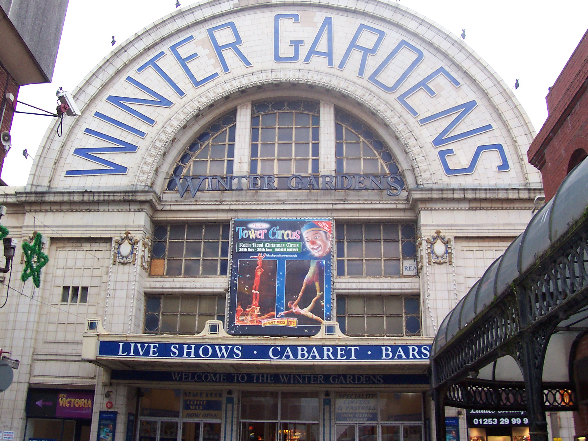 Blackpool Winter Gardens, from the west